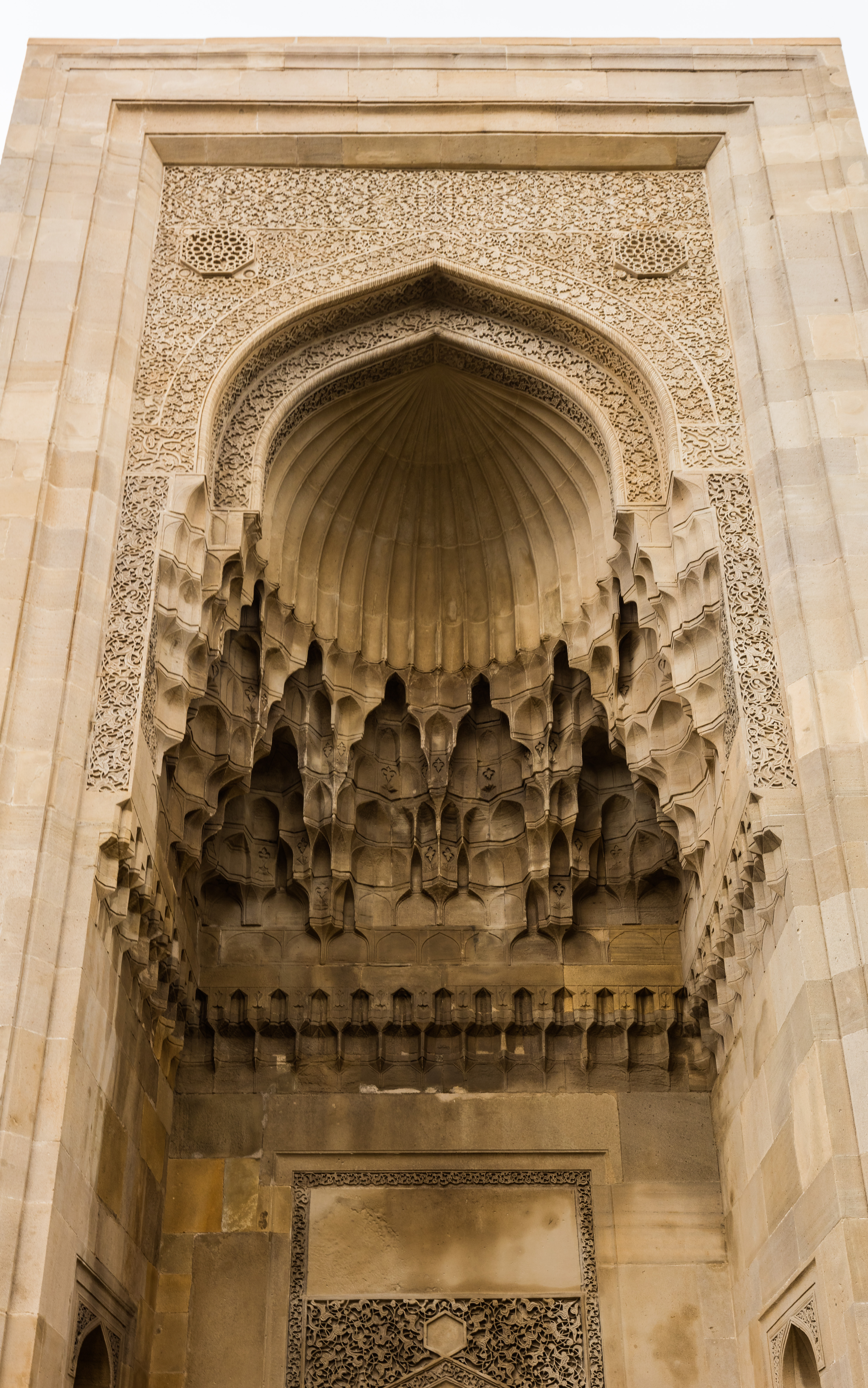 Palace of the Shirvanshahs, Baku, Azerbaijan